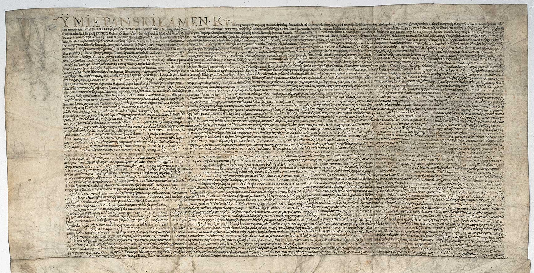 Upper part of the document: Union of Lublin